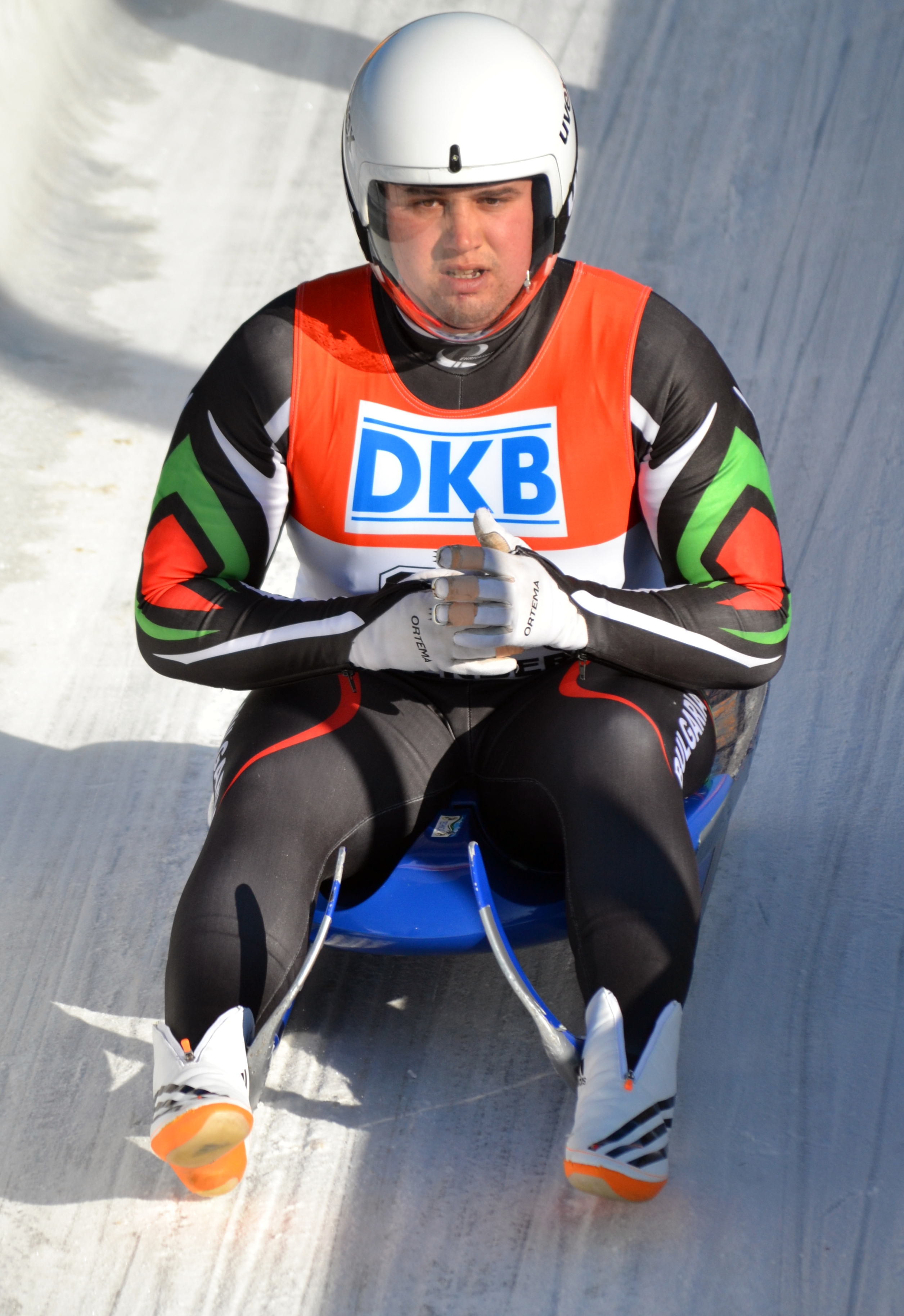 Luge world cup race season 2014/15 in Altenberg/Germany, 19th to 22nd Februar 2015. Day 2: Nations cup races.